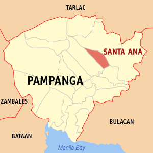 Map of Pampanga showing the location of Santa Ana